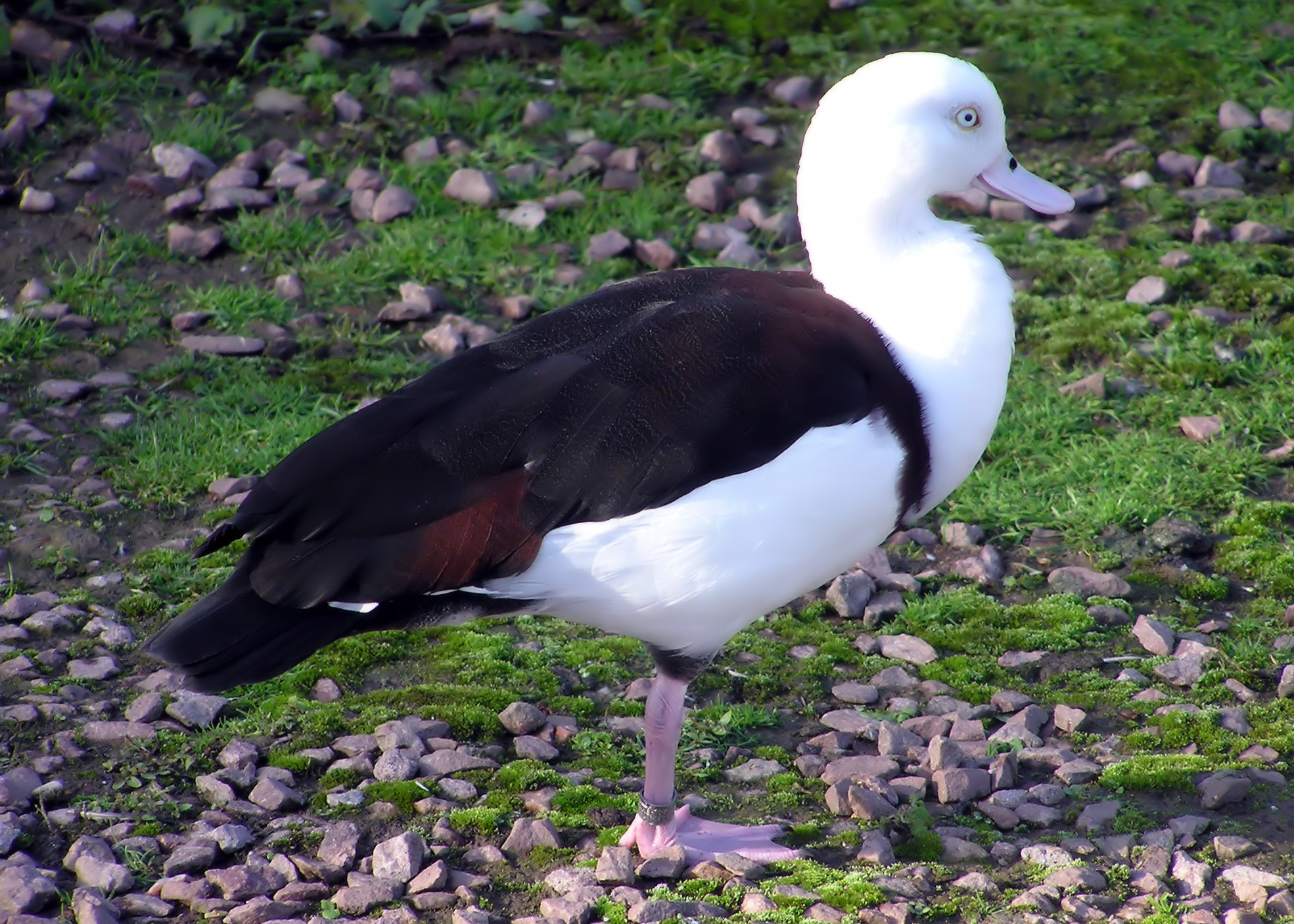 Radjah Shelduck Tadorna radjah at the Wildfowl and Wetlands Trust, Slimbridge, Gloucestershire, England.